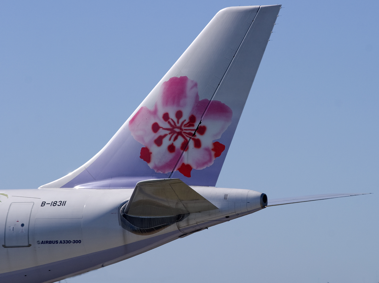 China Airlines taxing to Runway 19